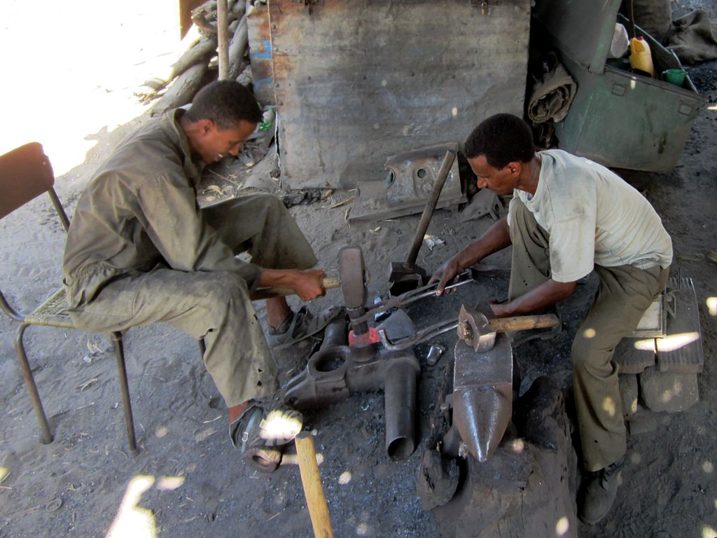 A traditional blacksmith shop in Keren, Eritrea.